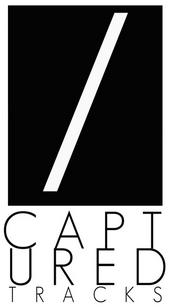 This is a logo owned by Captured Tracks for Infobox.